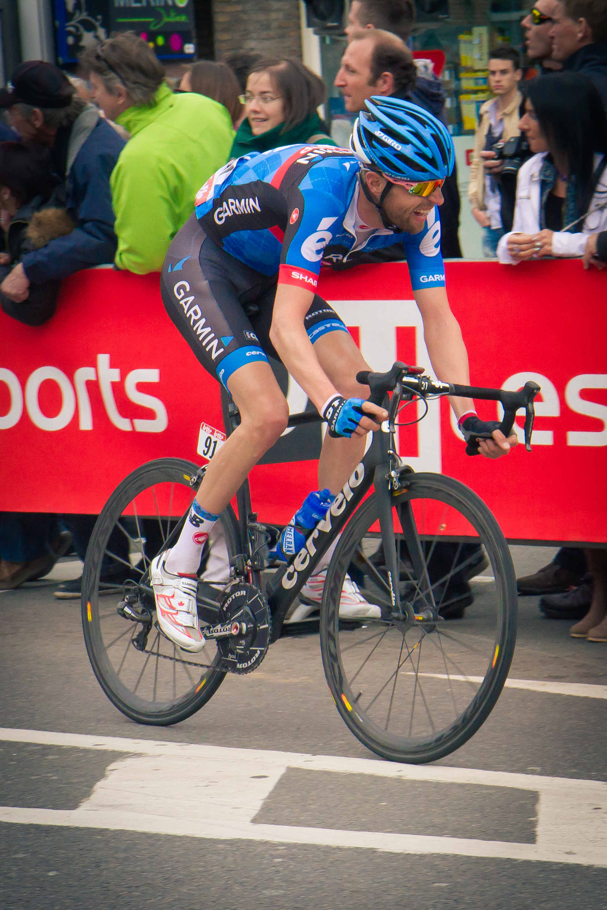 Ryder Hesjedal of Garmin Sharp (GRS) looked like he was going to win, but alas he placed 8th. Liege-Bastogne-Liege race, 2013